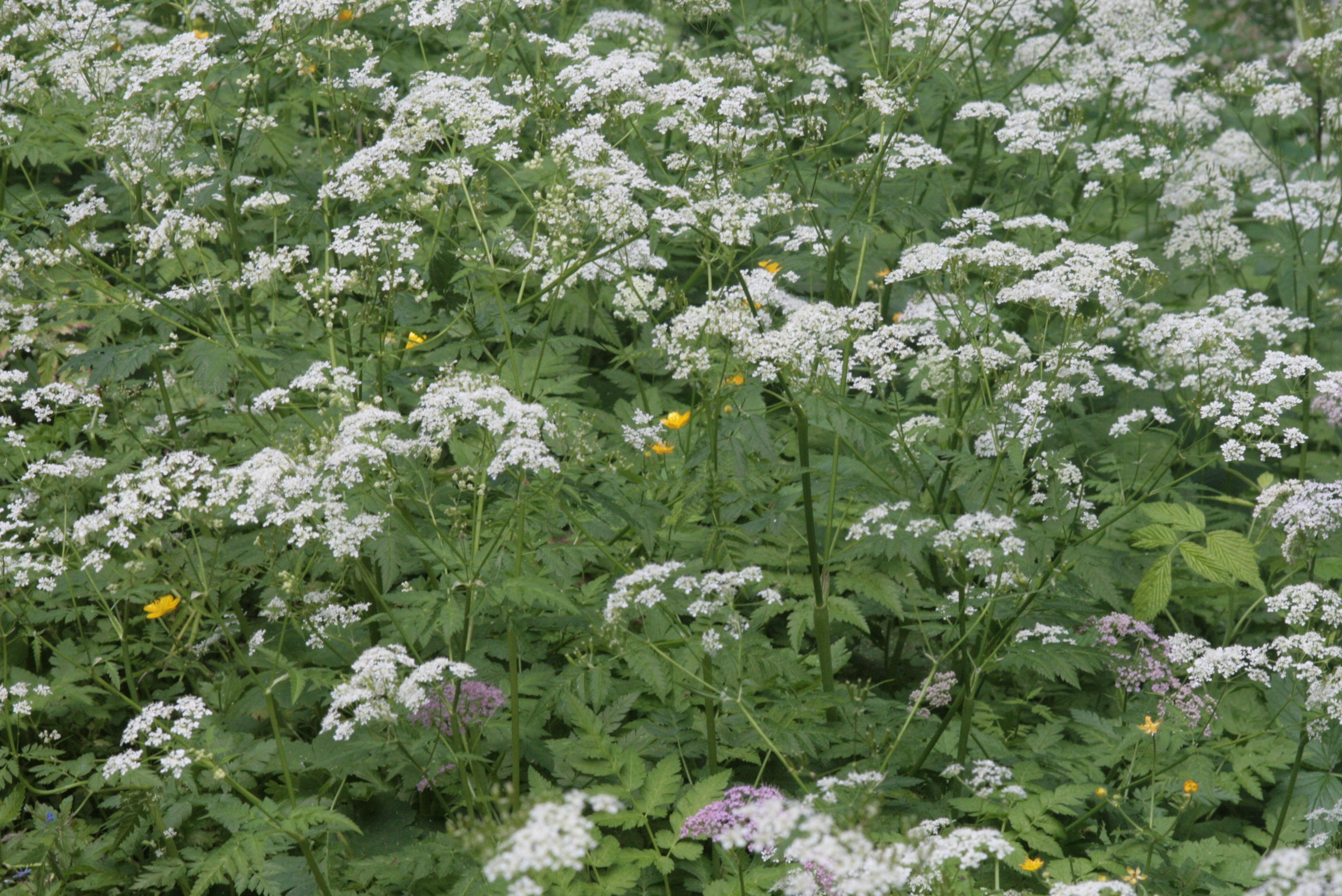 Anthriscus nitida, Anthriscus nitidus